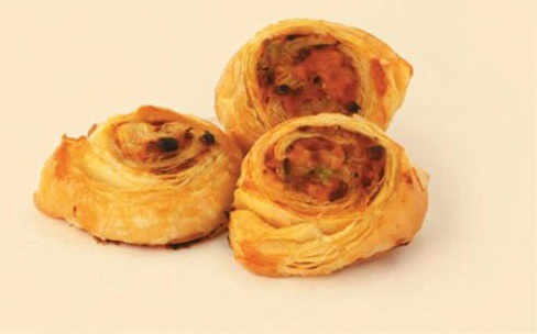 בורקסים פיצה